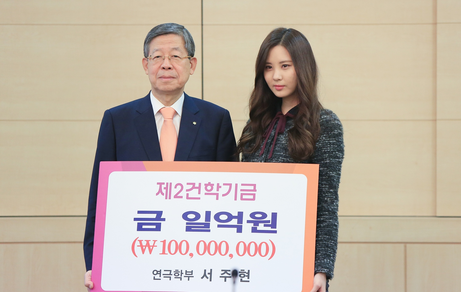 Kim Hui Ock and Seohyun at Dongguk University's scholarship fund donation on November 19, 2013.